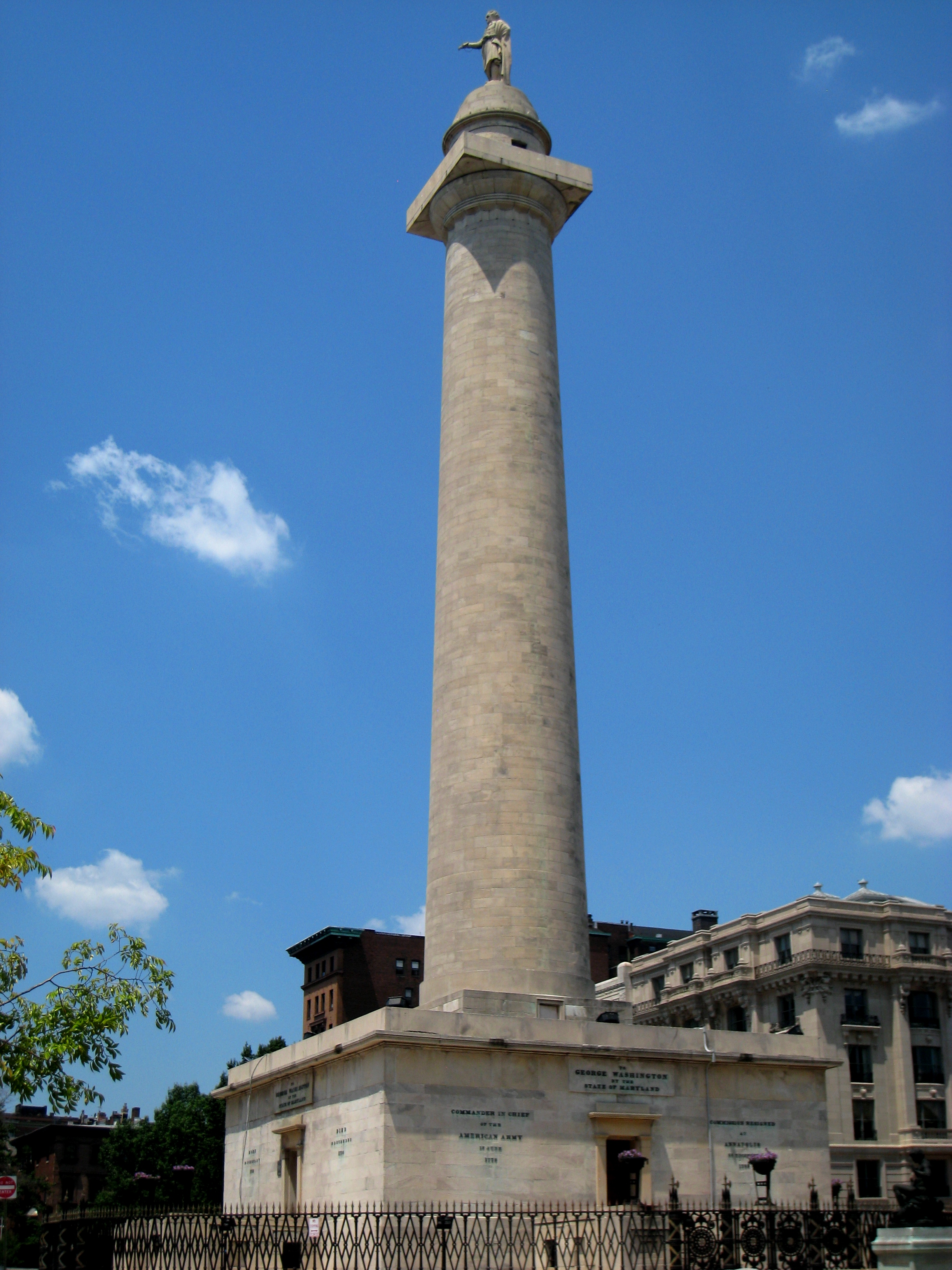 Washington Monument, Mount Vernon Place, Baltimore, Maryland, USA. Robert Mills, architect; Enrico Causici, artist. Cornerstone laid July 4, 1815; statue dedicated November 11, 1829.